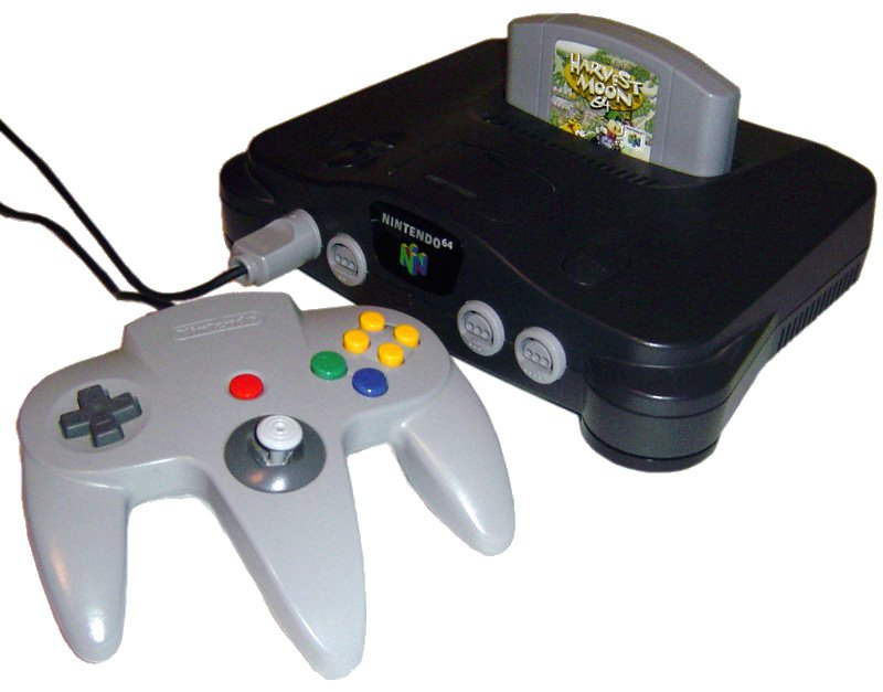 A Nintendo 64 game console and controller (Nintendo 64 is a trademark of Nintendo Company, Limited). Good Design Award 1997.